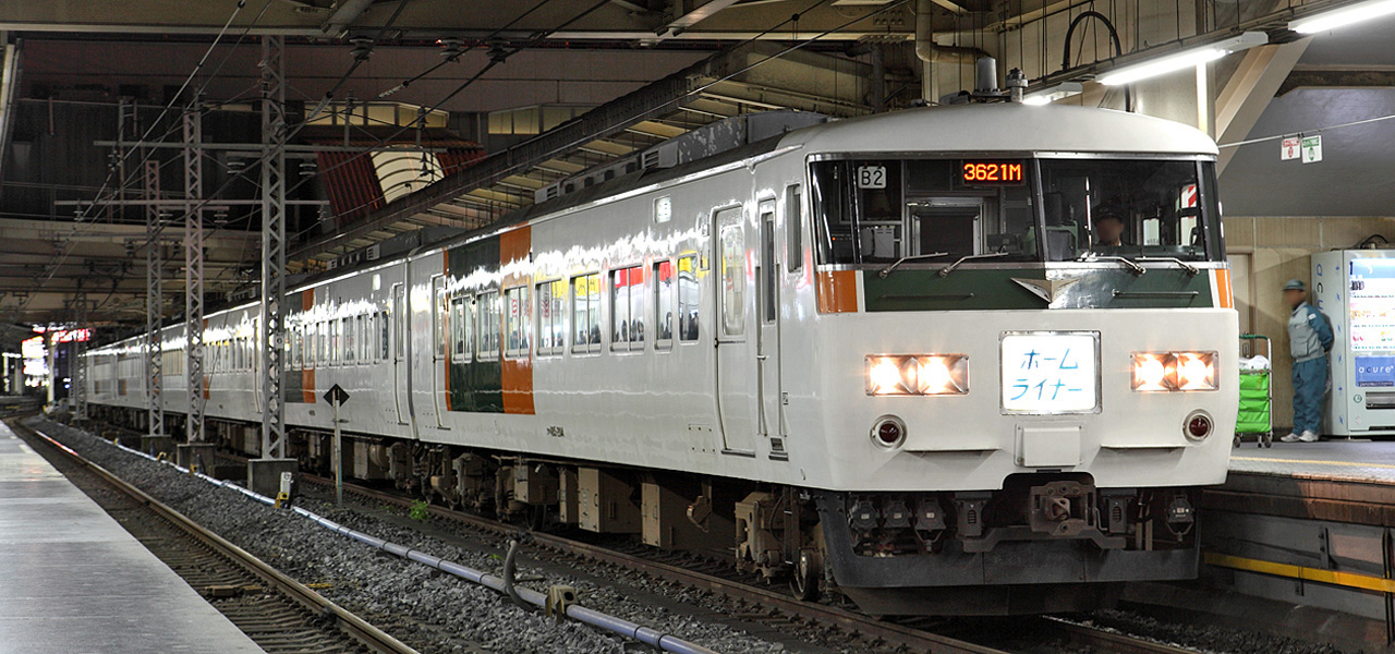 JNR 185 series of JR East on Home Liner Kōnosu ( B2F / Ueno Sta. ).